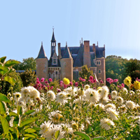 The Château du Moulin is directly linked to the Strawberry Conservatoire. The strawberry is a typically food speciality of Sologne.